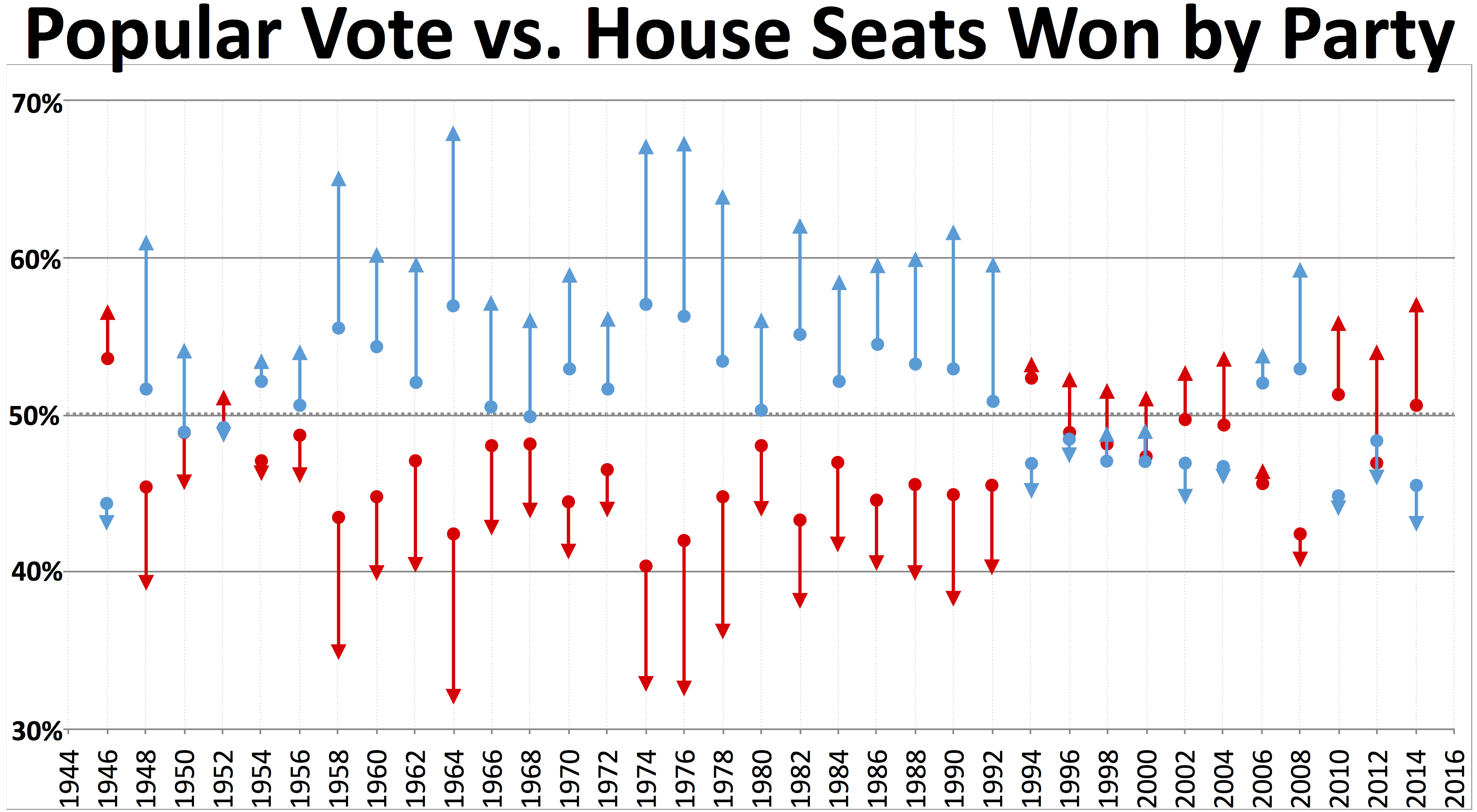 Popular vote and house seats won by party. Red signifies Republicans while blue signifies Democrats. The origin point of each arrow signifies the proportion of the popular vote out of the total House vote, while the head of each arrow signifies the number of seats won by each party.